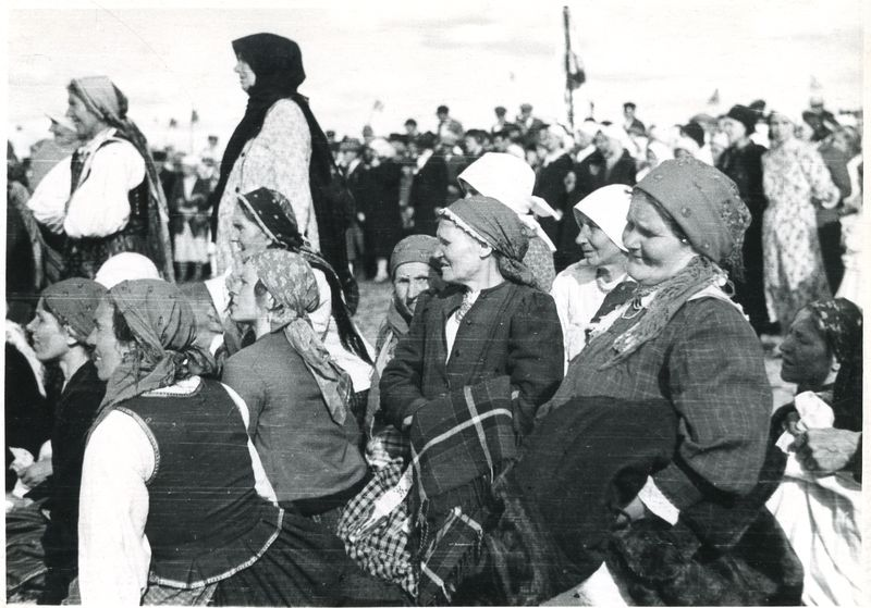 Day of olden times in 1935, Merkinė, Lithuania